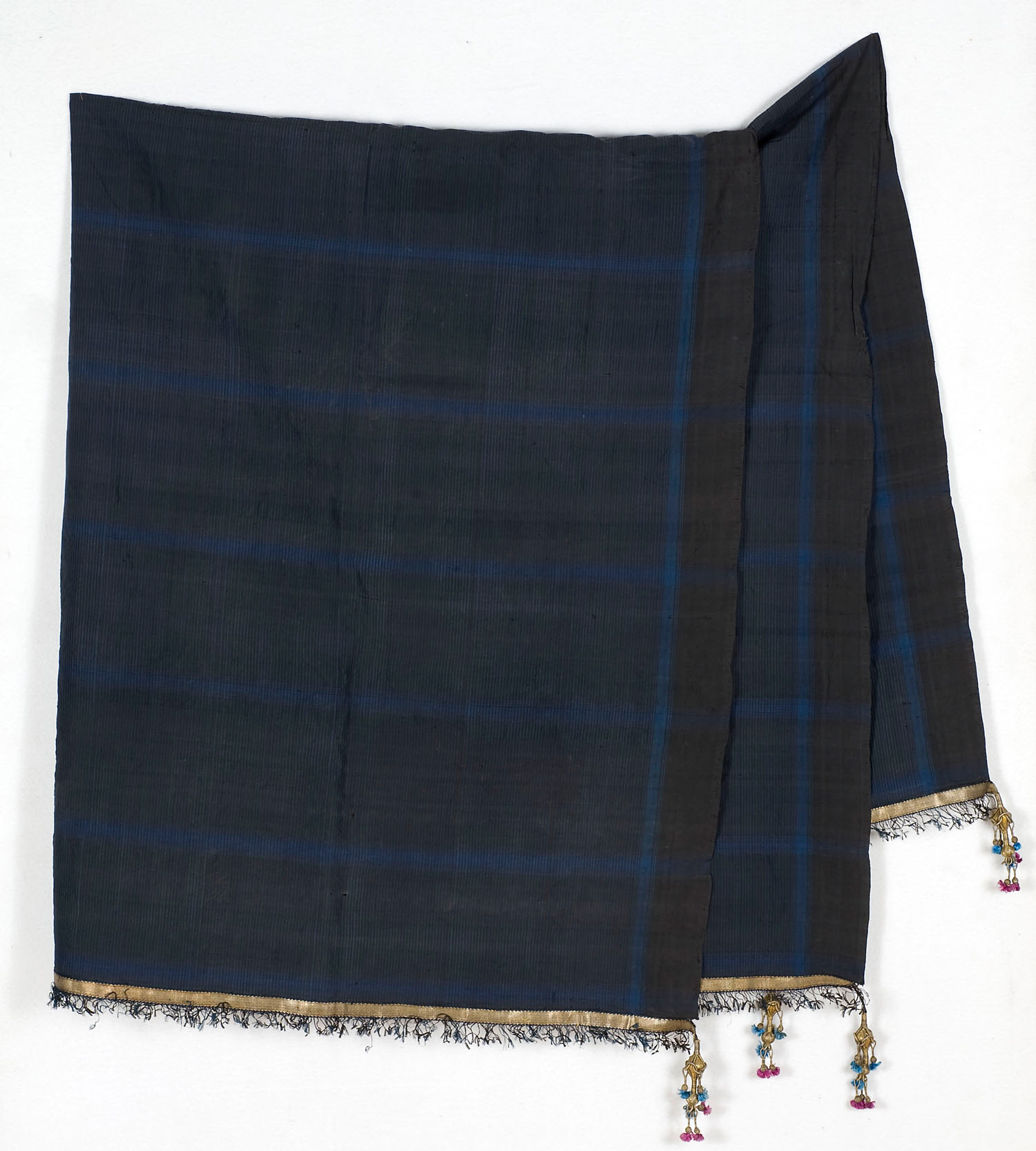 Skirt cloth, part of a costume for a Muslim woman who has made the pilgrimage to Mecca